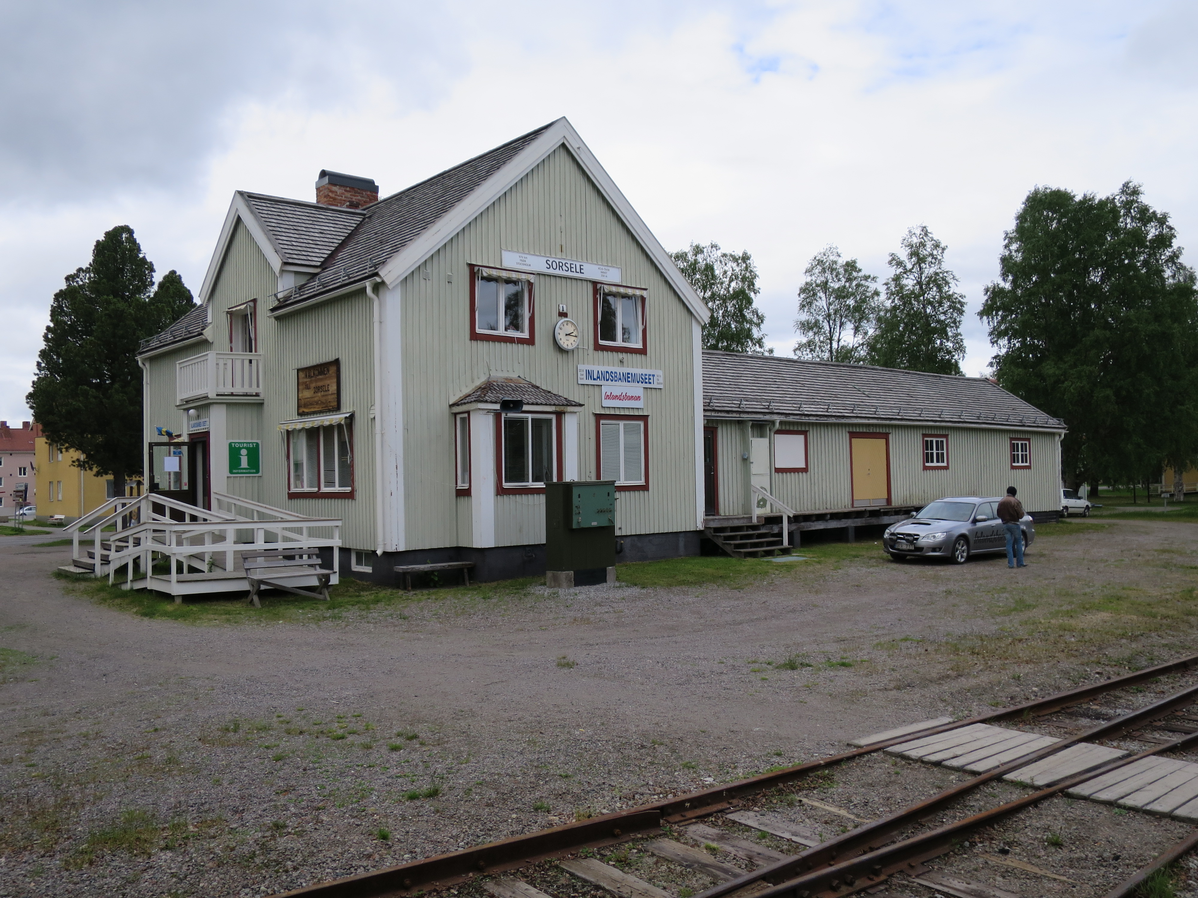 Sorsele Rly station